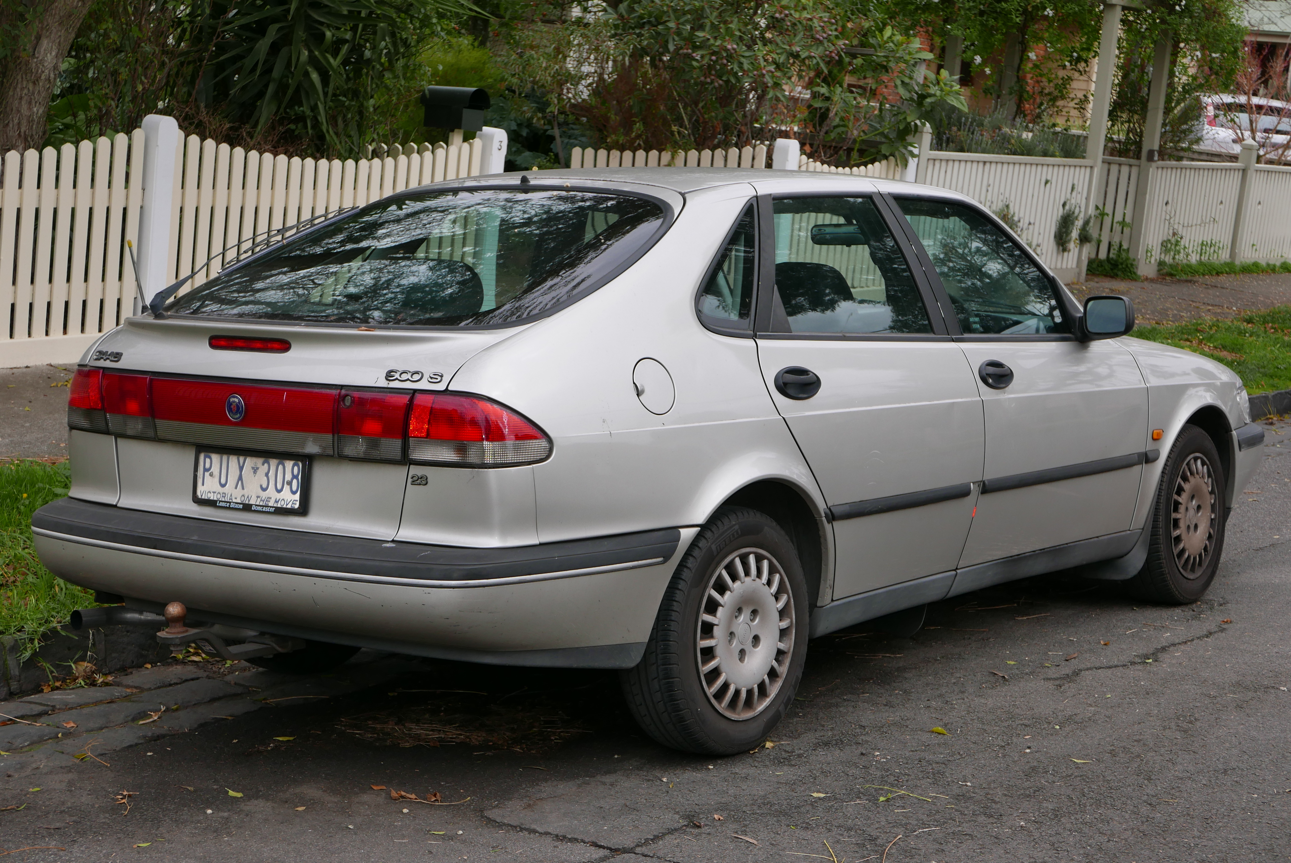 1997 Saab 900 (MY97) S 2.3 5-door hatchback. Photographed in Alphington, Victoria, Australia. Vehicle registration enquiry results Jurisdiction Victoria Registration PUX308 Chassis code YS3DD55B4V2036338 Engine code B2341DM19V069916 Compliance date 1997-08 Year of manufacture 1997